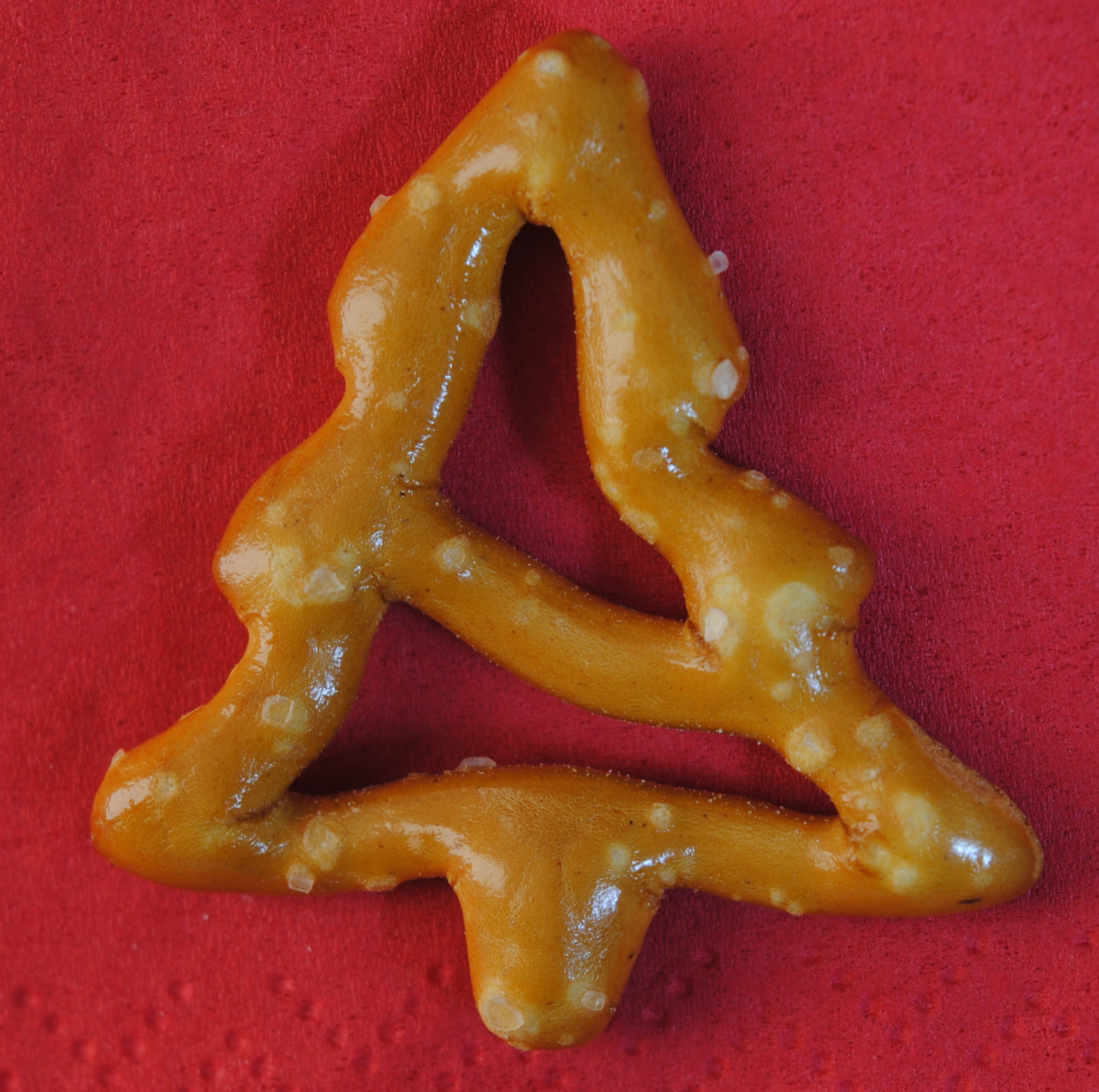 A pretzel, in the shape of a Christmas tree. Sold in England by Aldi in December 2019.